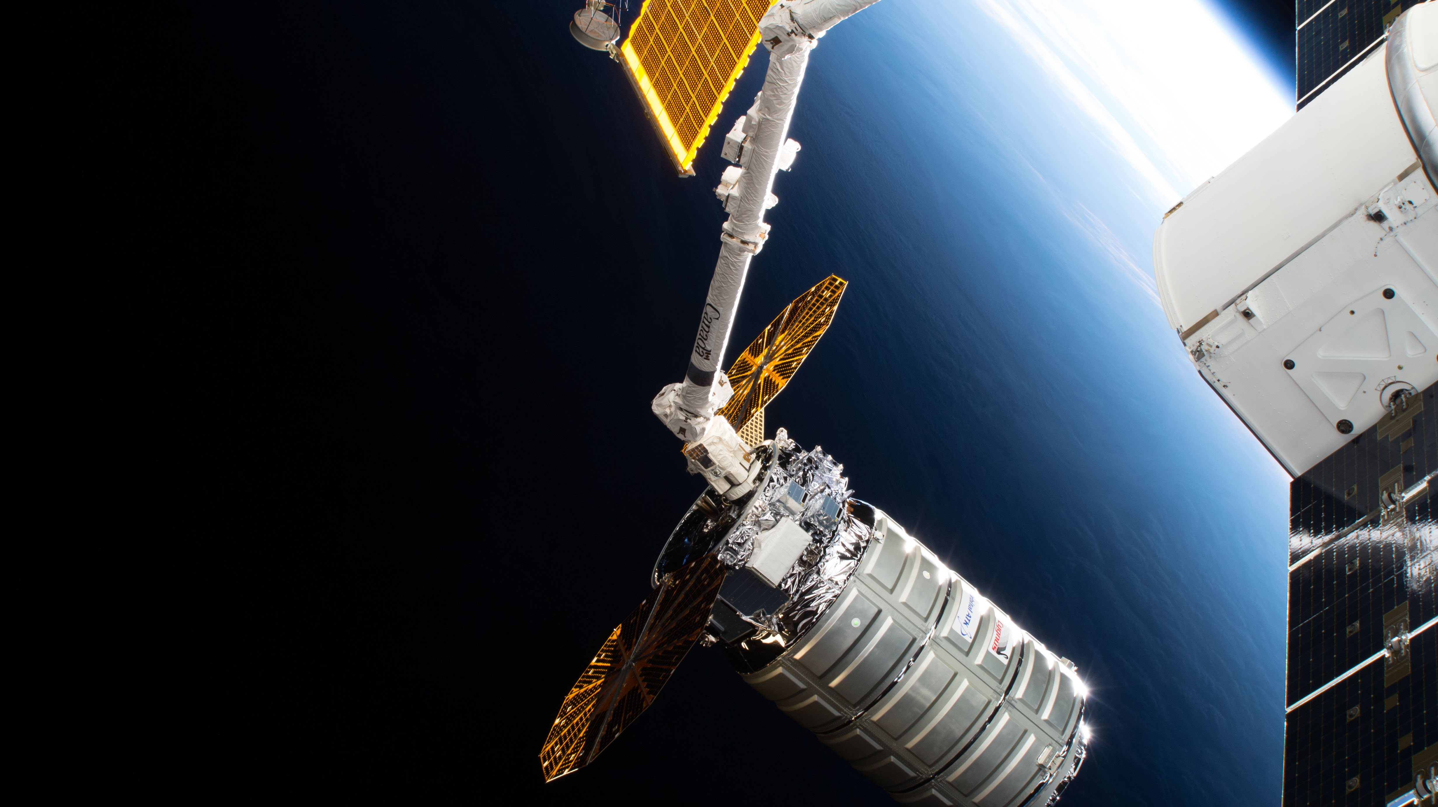 The Cygnus space freighter from Northrop Grumman, formerly Orbital ATK, was pictured July 15 , 2018, poised for release from the Canadarm2 robotic arm back into Earth orbit ending a 52-day cargo mission at the International Space Station.